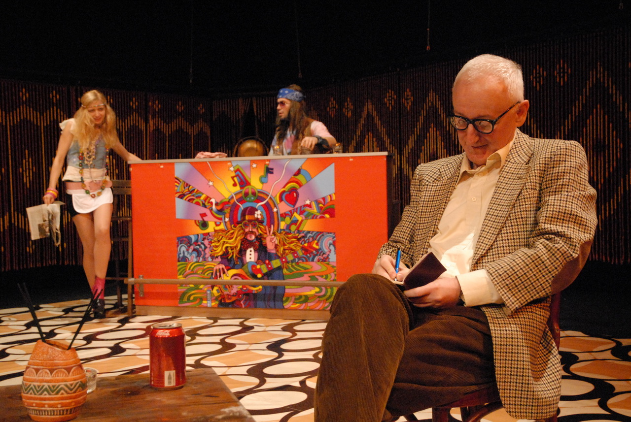 "Love Griefs of Woody Allen" written and directed by Branko Dimitrijević, Drama of the SNT, Novi Sad, 2009/10; Dragomir Pešić, Sanja Ristić Krajnov Srpski (latinica): "Ljubavni jadi Vudija Alena", napisao i režirao Branko Dimitrijević; Drama SNP-a, Novi Sad, 2009/10; Dragomir Pešić, Sanja Ristić Krajnov Српски (ћирилица): "Љубавни јади Вудија Алена", написао и режирао Бранко Димитријевић; Драма СНП-а, Нови Сад, 2009/10; Драгомир Пешић, Сања Ристић Крајнов